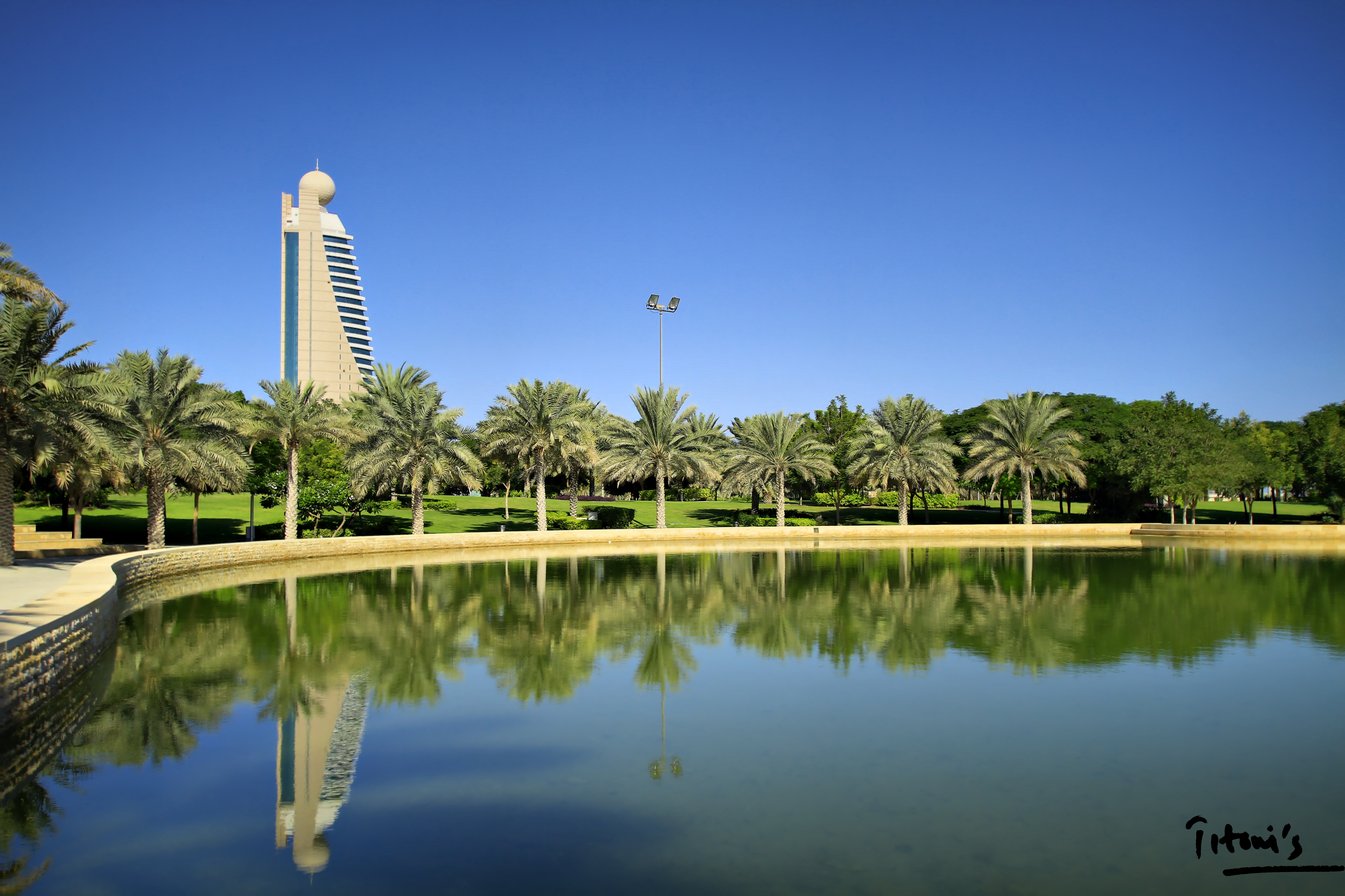 Zabeel park and Etisalat building situated at Sheikh Zayed Road